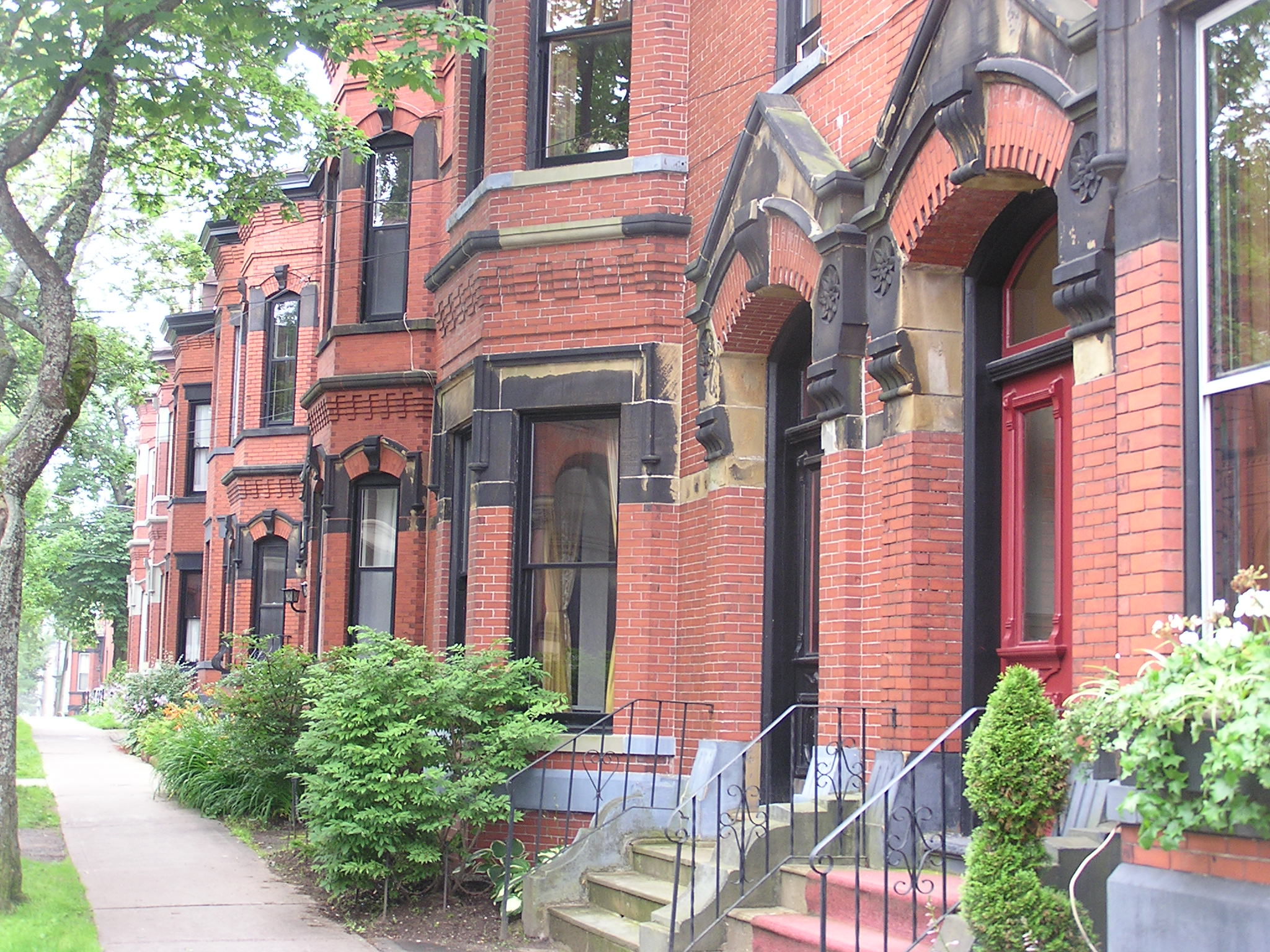 I took this photo myself of a street in my hometown, Saint John, New Brunswick in mid-July, 2006. I am putting it here in the commons for all to freely use.